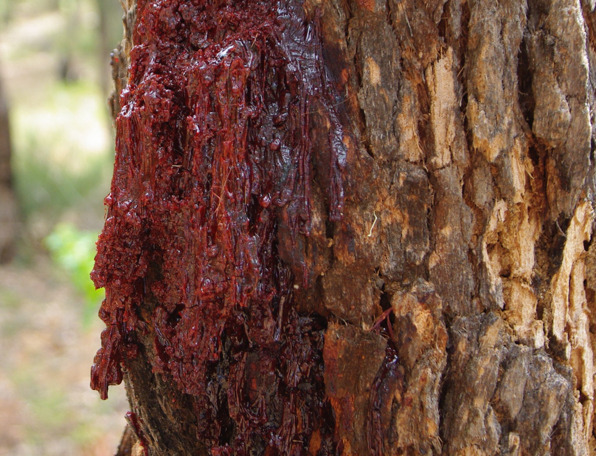 Crystal formation of red gum (Corymbia calophylla) resin, Strettle Road Reserve, Glen Forrest, Western Australia